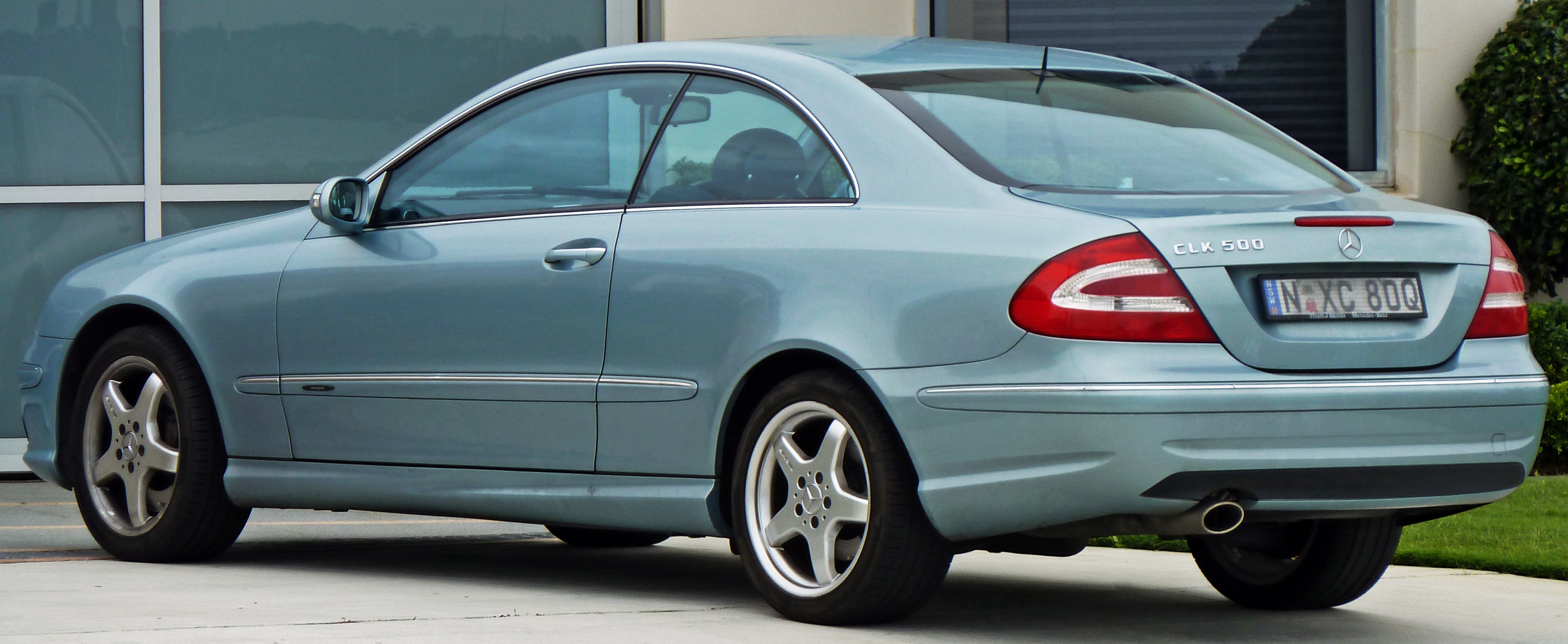 2003 Mercedes-Benz CLK 500 (C 209) Avantgarde coupe. Photographed in Sans Souci, New South Wales, Australia.